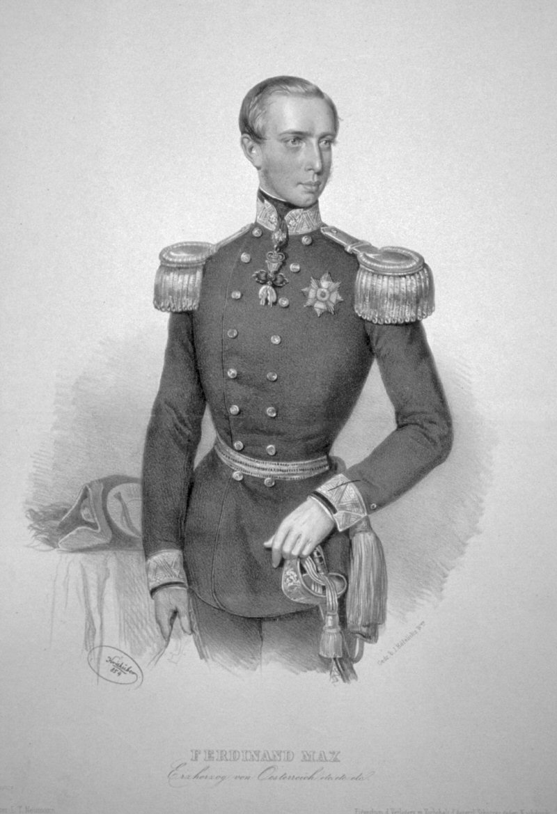 Archduke Ferdinand Maximilian of Austria, later Maximilian I Emperor of Mexico. Lithography.